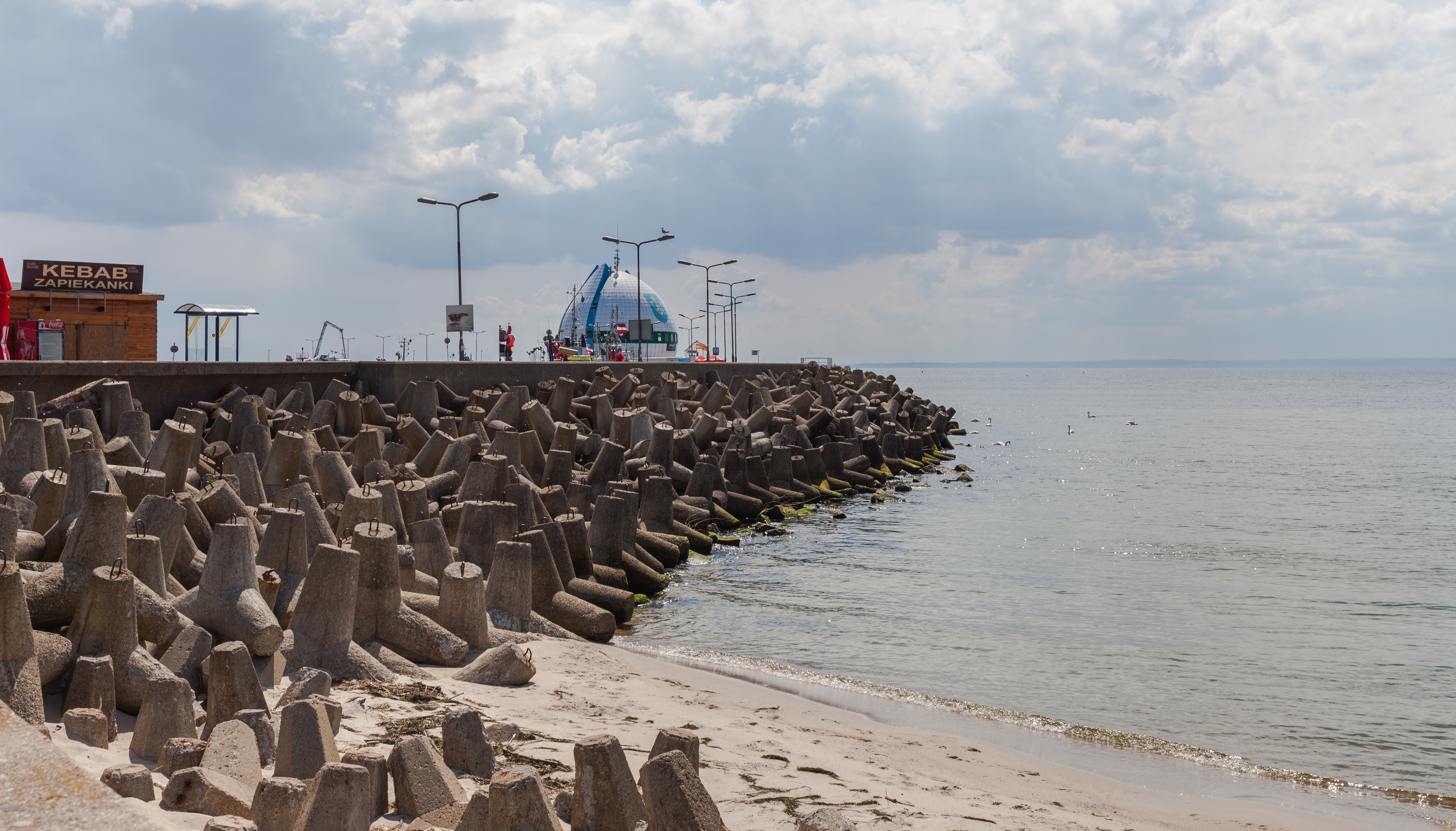 Port of Hel, Poland